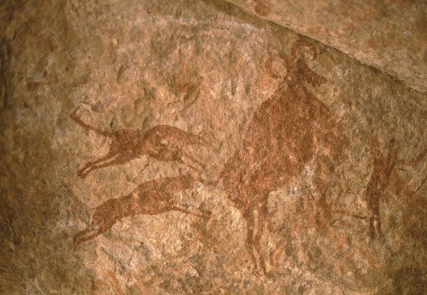 Hunting scene: dogs attack a mouflon.